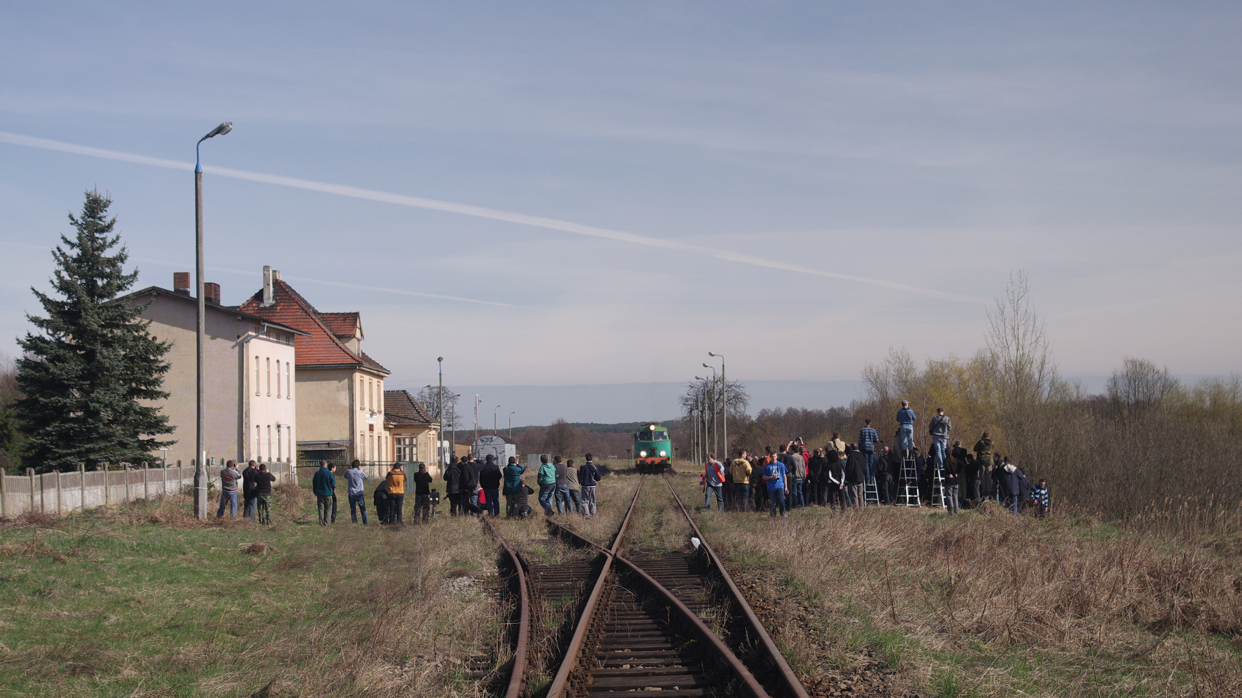 A photo stop at the Kamień Krajeński railway station during the "Chojnice - Gniezno" train excursion.